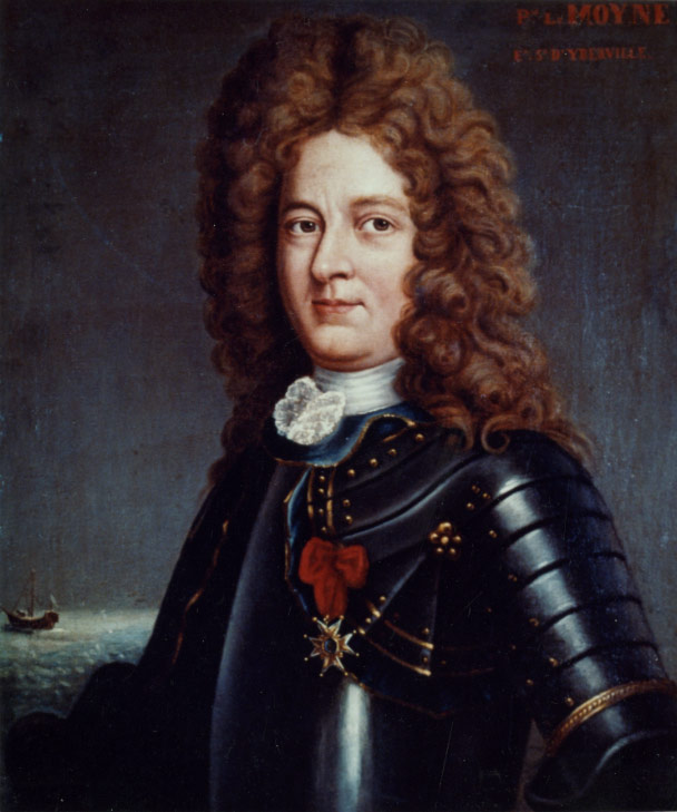 Portrait of Pierre Le Moyne d'Iberville, French explorer and naval commander, founder of the Colony of Louisiana, Knight of the Order of Saint Louis, and a veteran of King Williams' War and the War of the Spanish Succession.